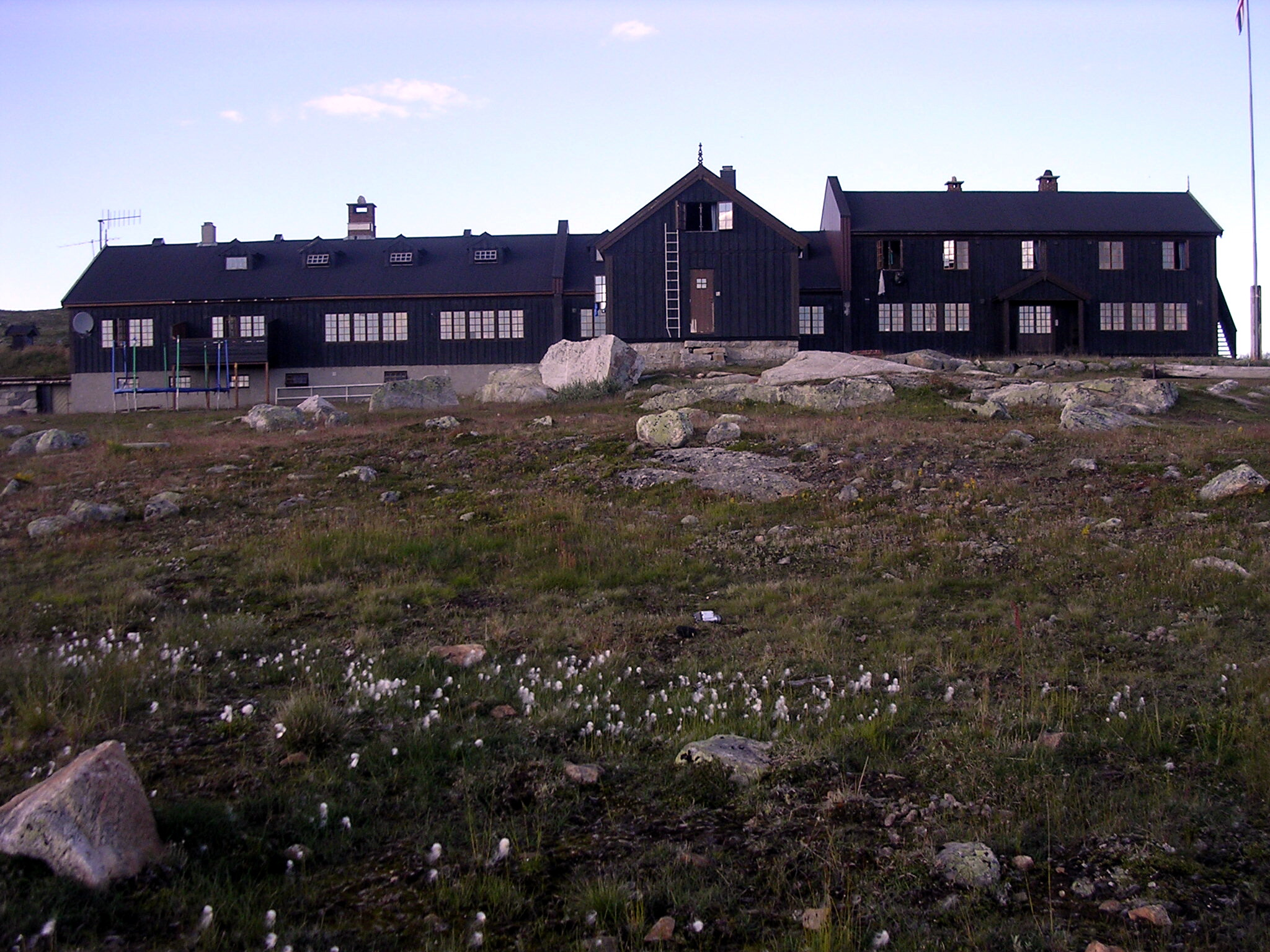 Sandhaug, a cabin located at Hardangervidda, Norway.